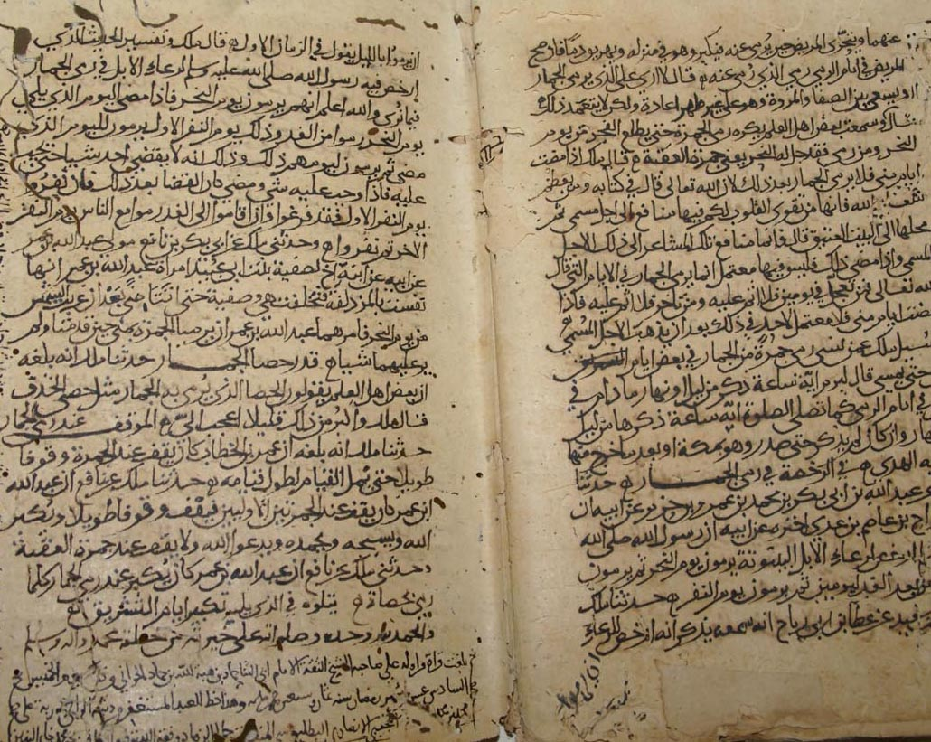 Hammad al-Harrani's autograph, taken from a manuscript provided by Adilnor's collection.